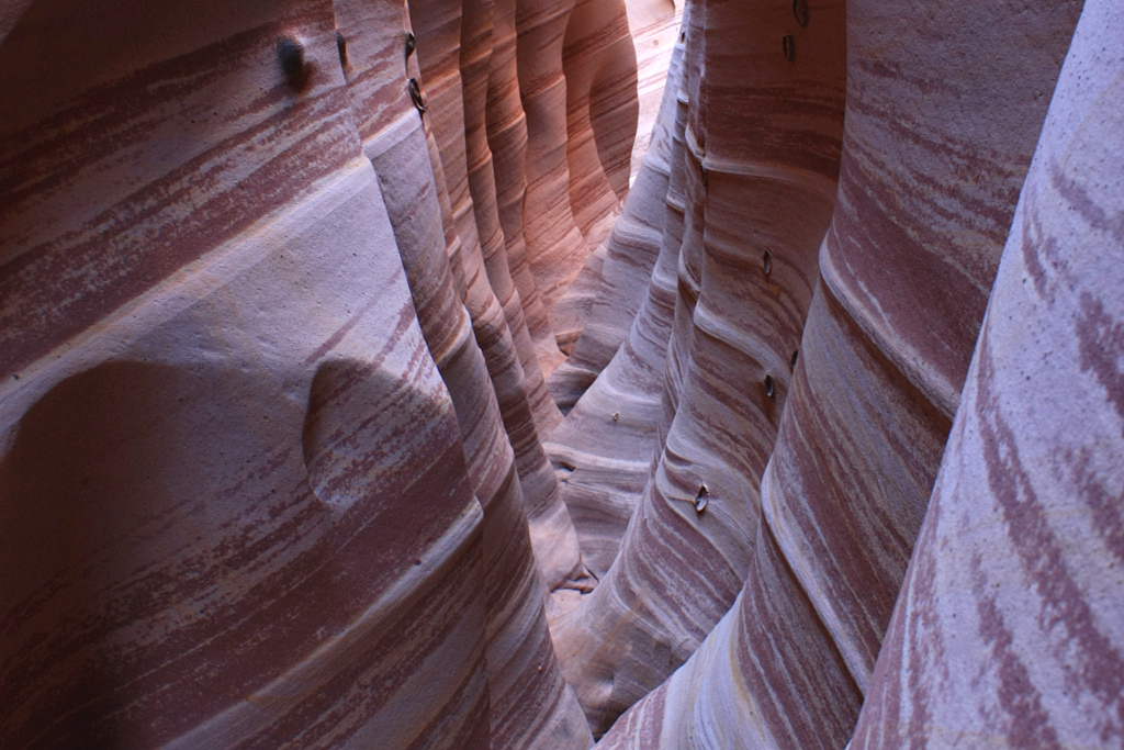 Grand Staircase-Escalante National Monument, Utah, USA - a slot canyon called Zebra Canyon